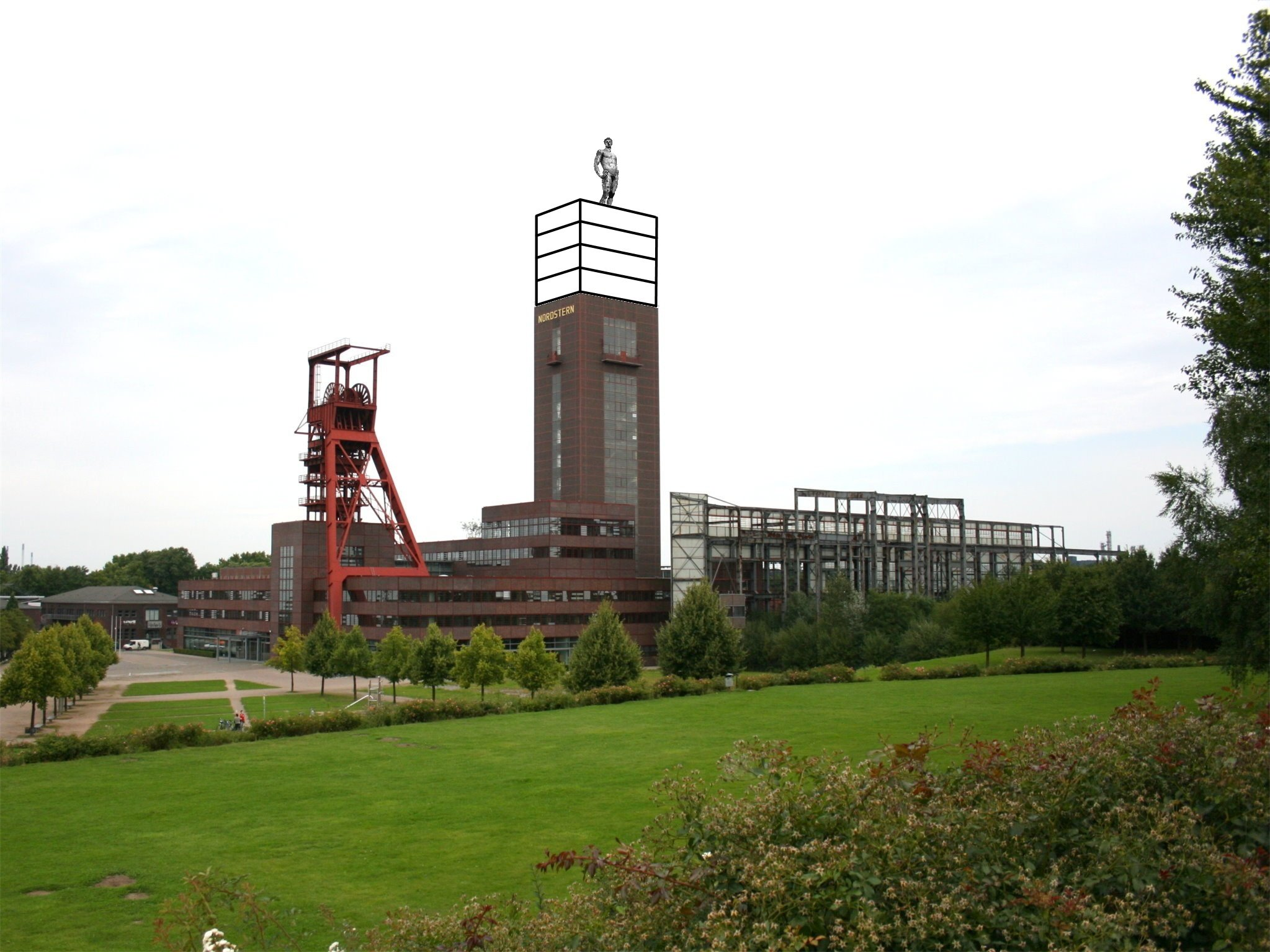 Attention please: This is only a imaginative painting of the new four levels with glass fronts and the planed statue of sculptor Markus Lüpertz. Please note: The size is based on information from the daily press and the statue does not show the original work of art!